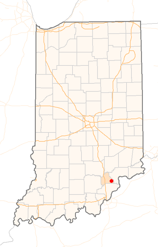 Red Dot map of Indiana, showing the location of Lexington